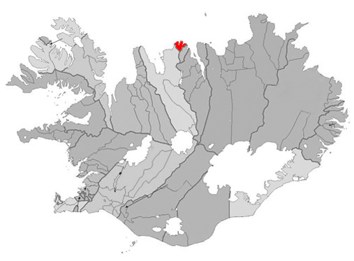 Based on Municipalities of Iceland.png.